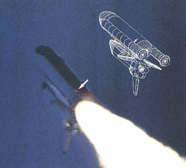 STS51L at 58.788 seconds, the first flicker of flame appeared